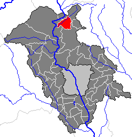 This map shows the area of the Gemeinde (municipality) Schrems bei Frohnleiten in the Bezirk (district) Graz-Umgebung, Styria, Austria.